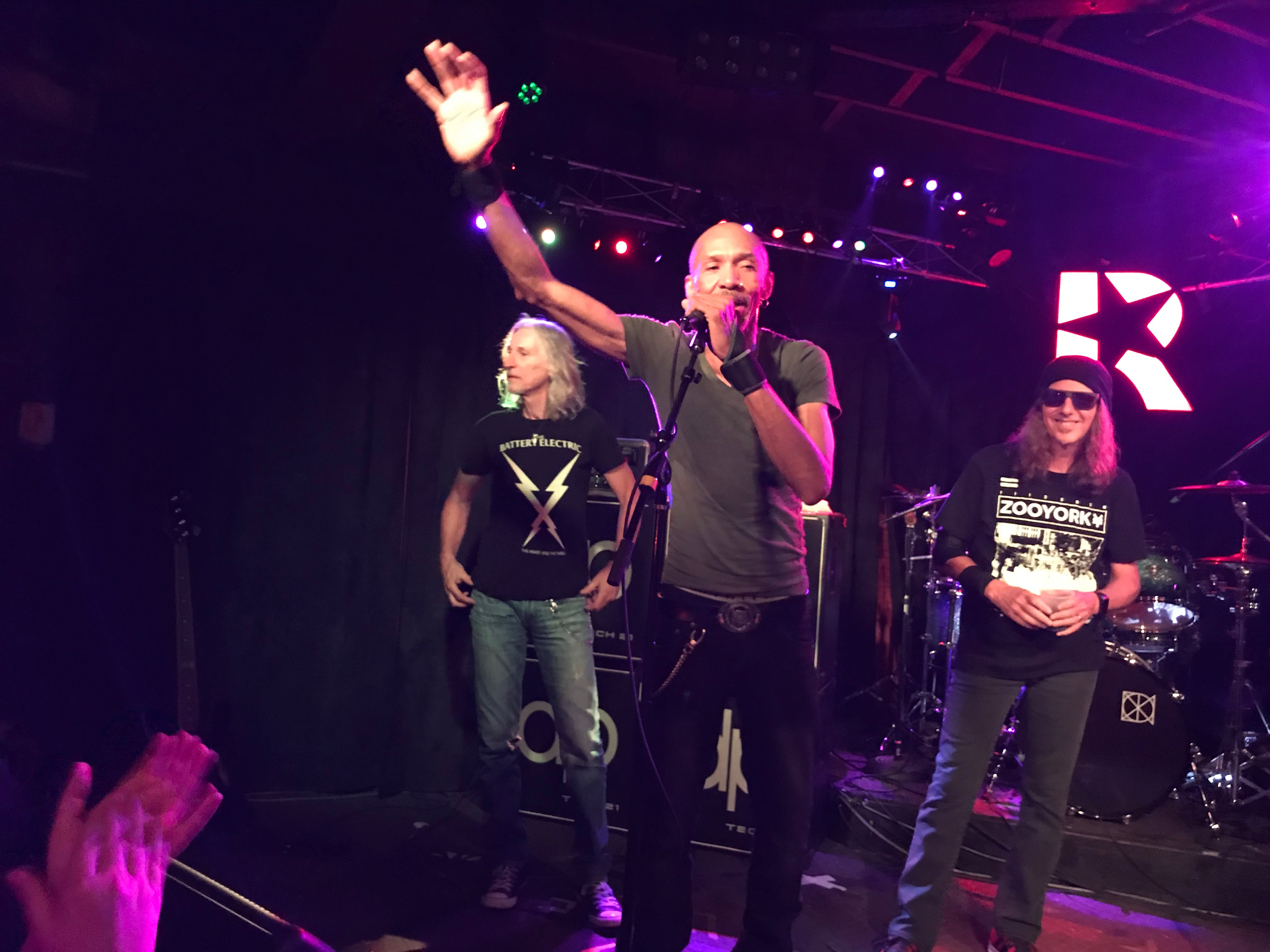 A photograph of the rock group King's X.